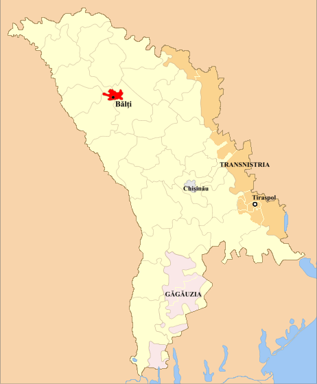 Map of Moldova with municipality of Bălţi highlighted in red